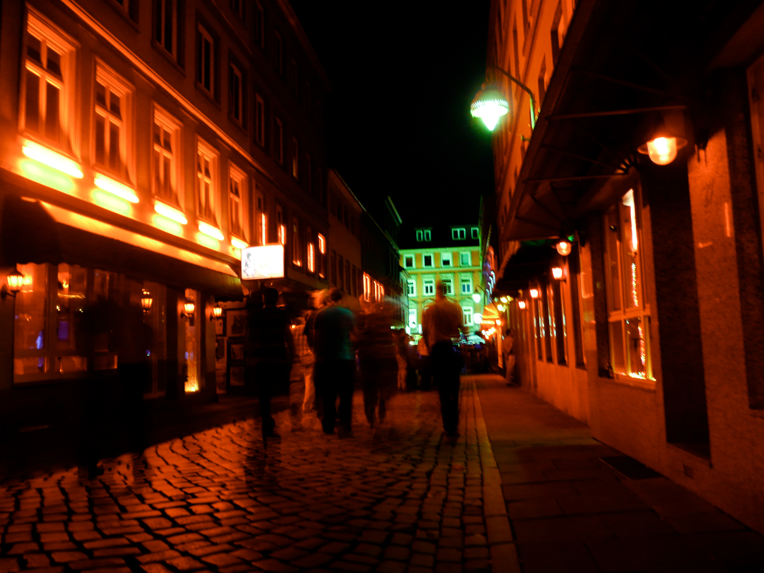 Herbertstrasse (near Reeperbahn), the red district. Hamburg, Germany